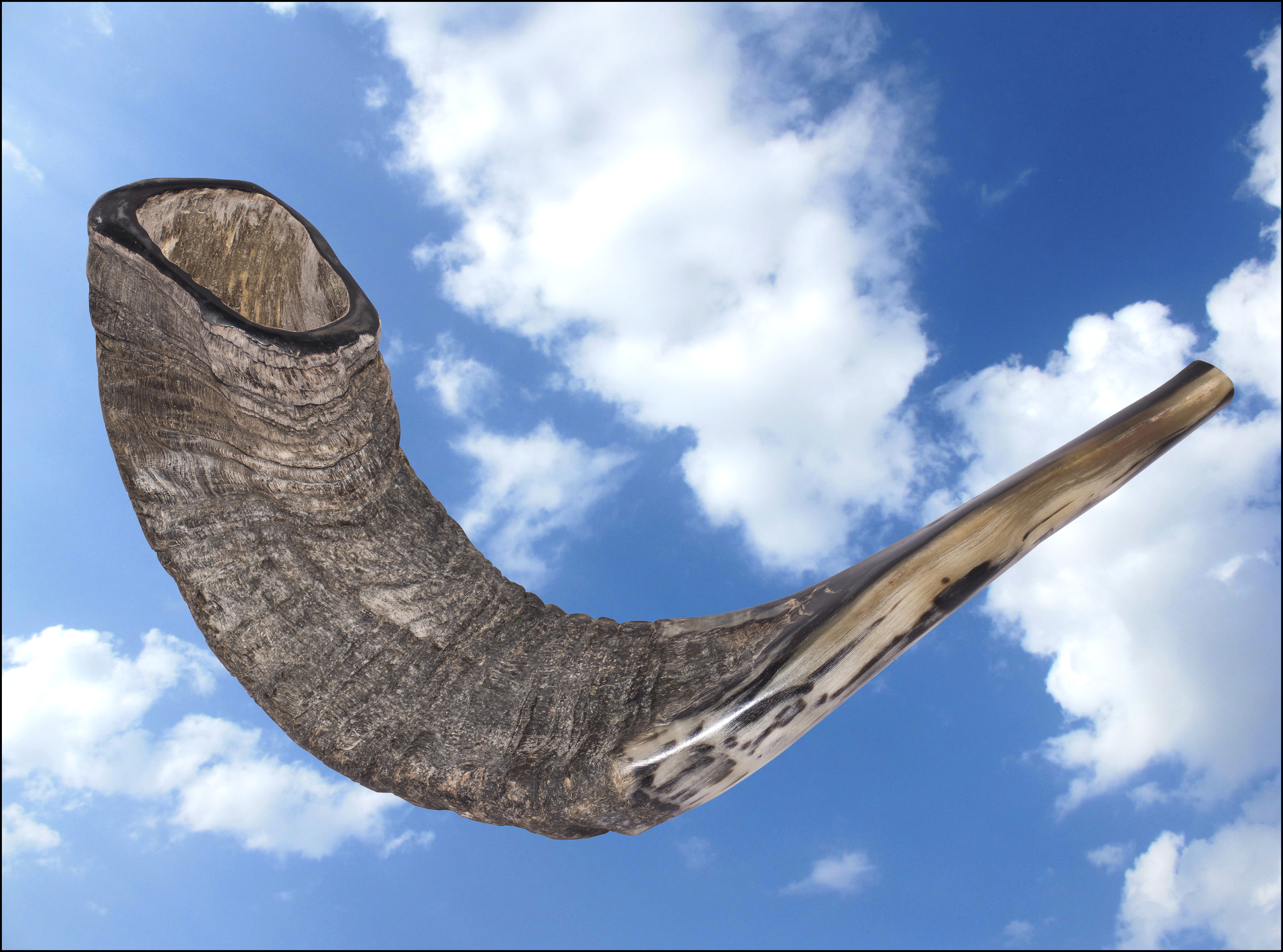 Shofar (Jewish ritual horn) שופר